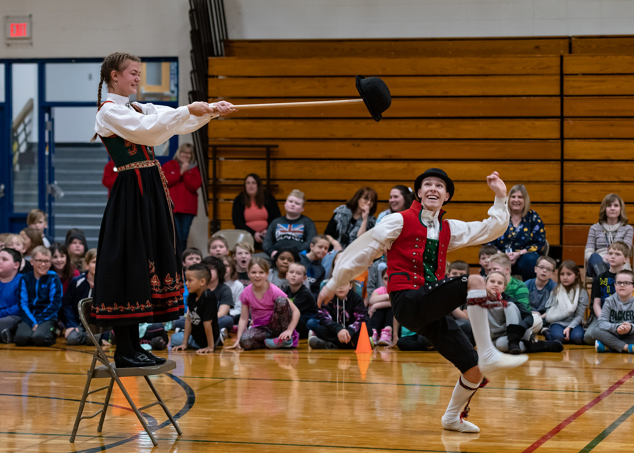 A member of the Stoughton High School Norwegian Dancers performs the hallingkast--"hat kick" at a Wisconsin elementary school. This is commonly performed in traditional Norwegian dance.